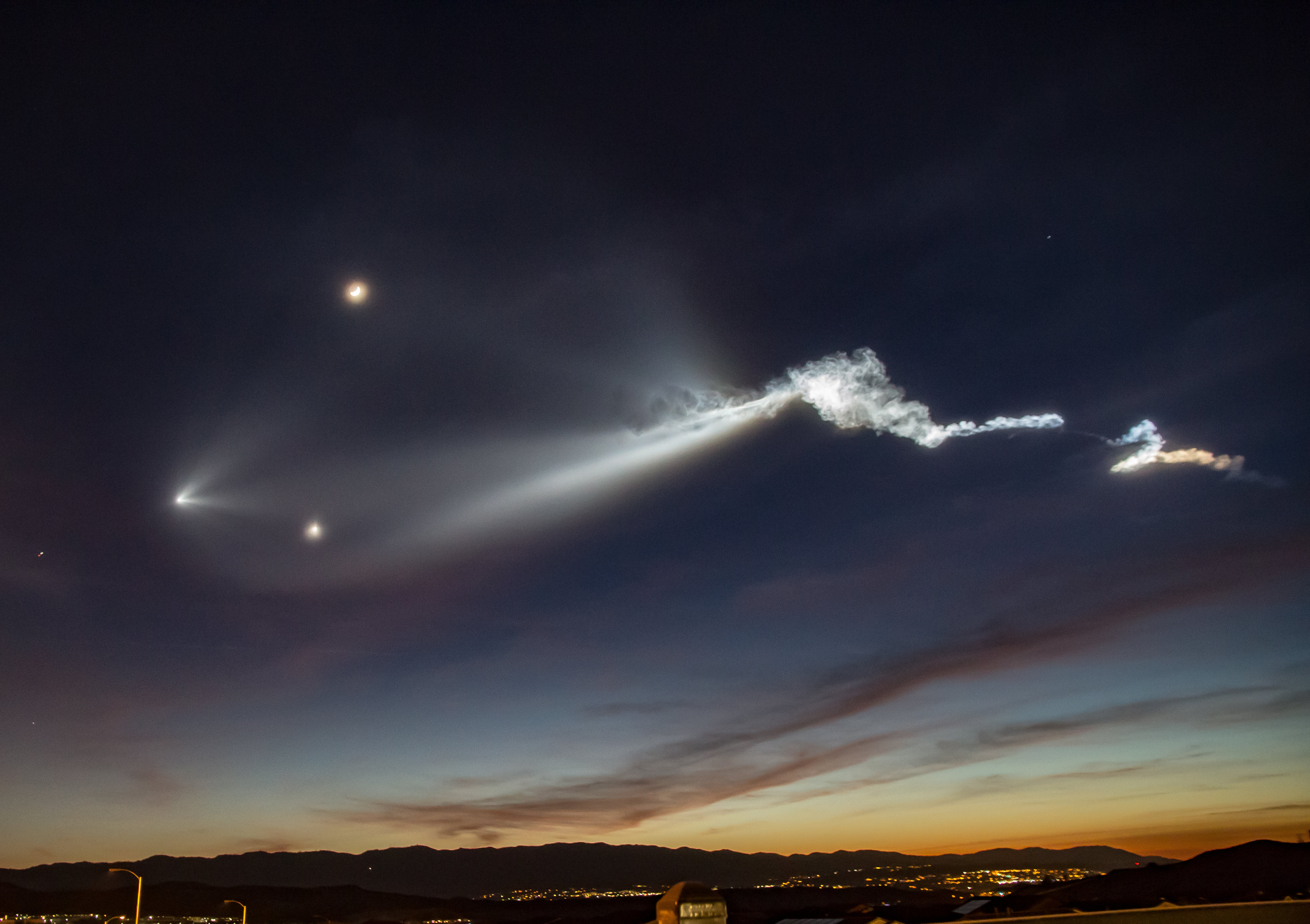 Plume from SpaceX Launch of Iridium-4. Falcon 9 Flight 46